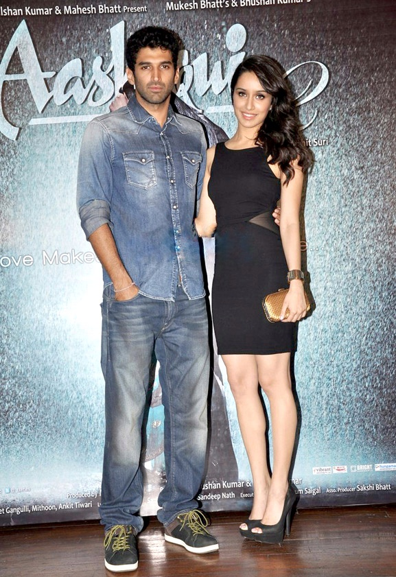 Aditya Roy Kapur & Shraddha Kapoor during success bash of Aashiqui 2 at Escobar